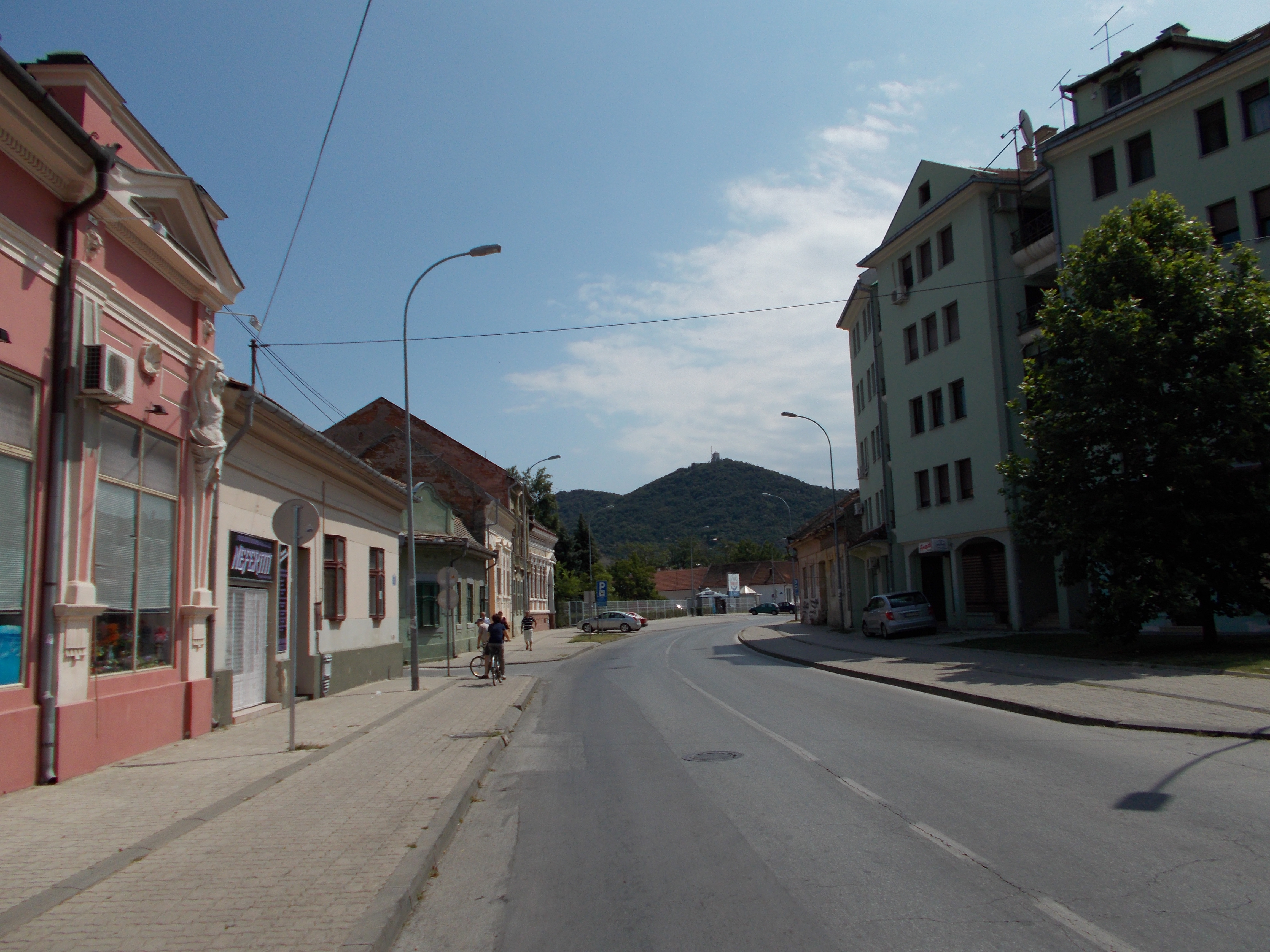 View on Vrshac Tower from downtown.